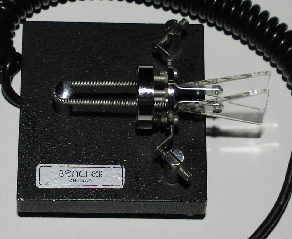 Bencher Paddles, fitted with a mini-audio connection (cropped version). Permission is granted by Mark Fickett (the photographer and Bencher owner) to use, modify, and distribute this image so long as attribution to him is maintained. (Notification upon use is requested but not required.)